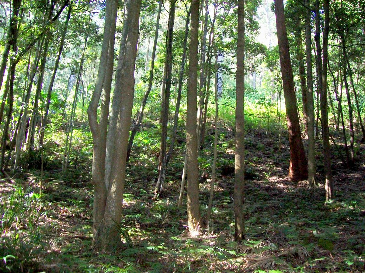 Camp Gully Rainforest, Garawarra State Conservation area, Australia. Featuring Doryphora sassafras